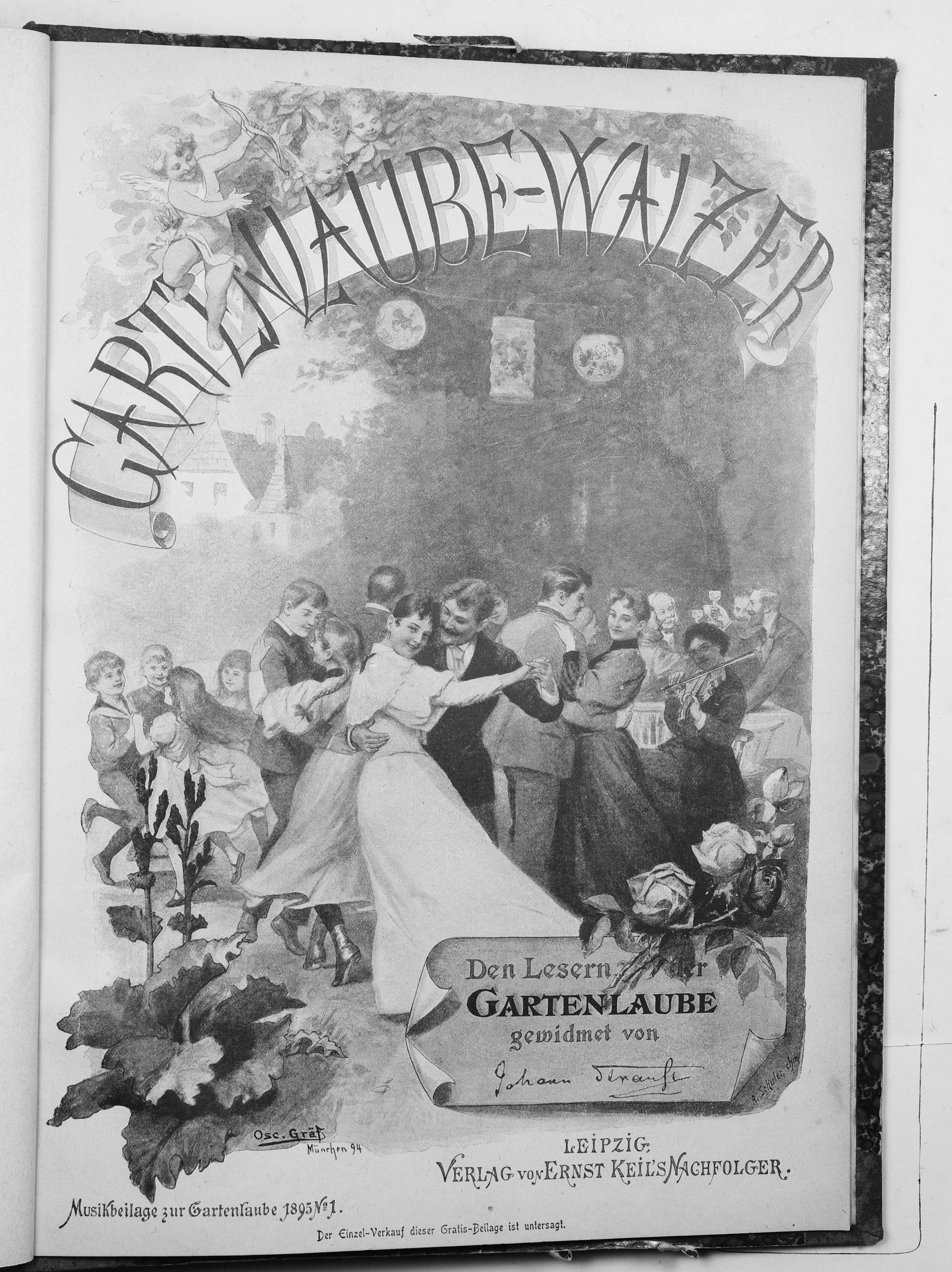 no caption